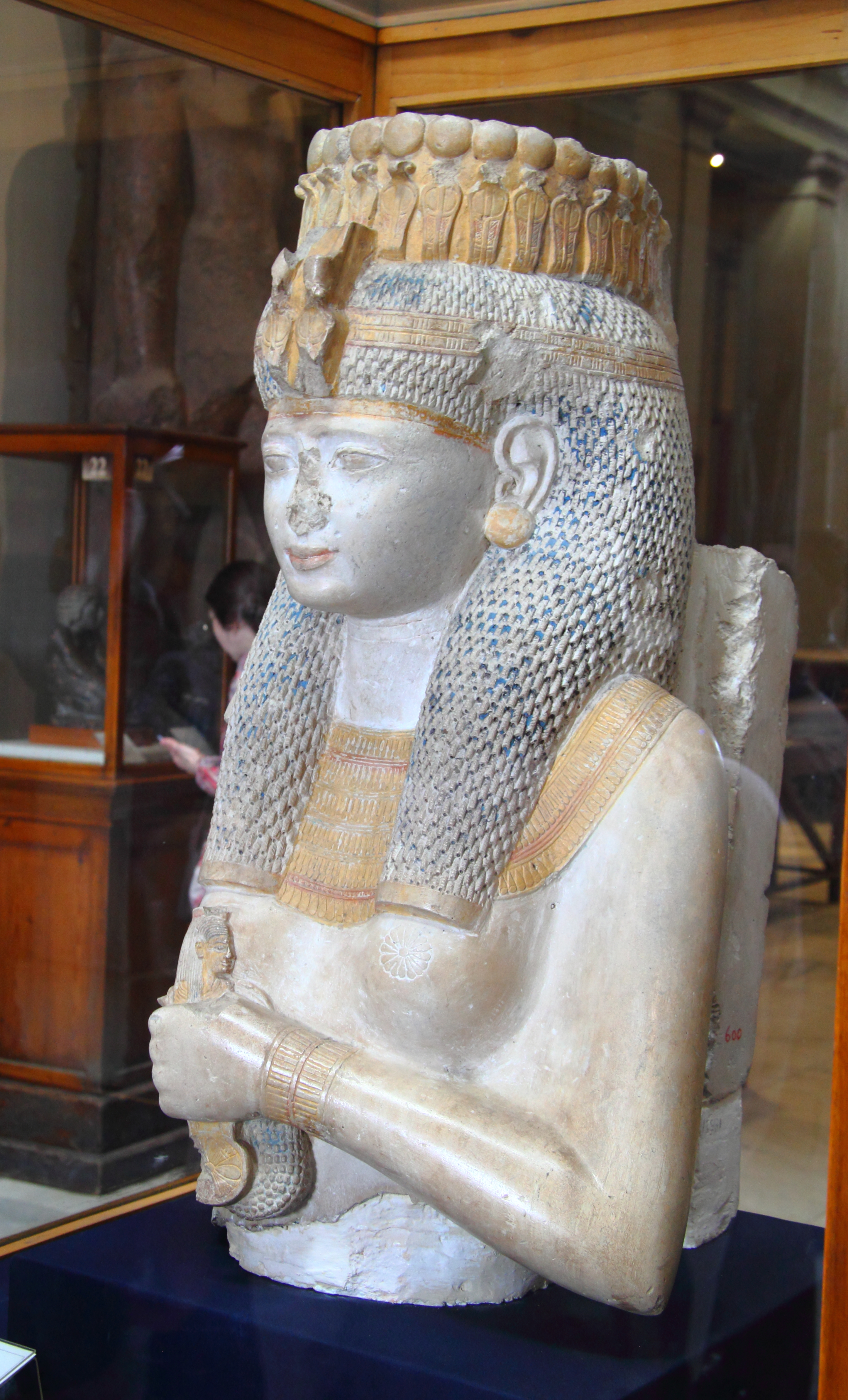 Egyptian Museum Cairo: statue of Meritamen, daughter of king Ramesses II, excavated in the Ramesseum, New Kingdom of Egypt, Nineteenth Dynasty of Egypt,13th century BC